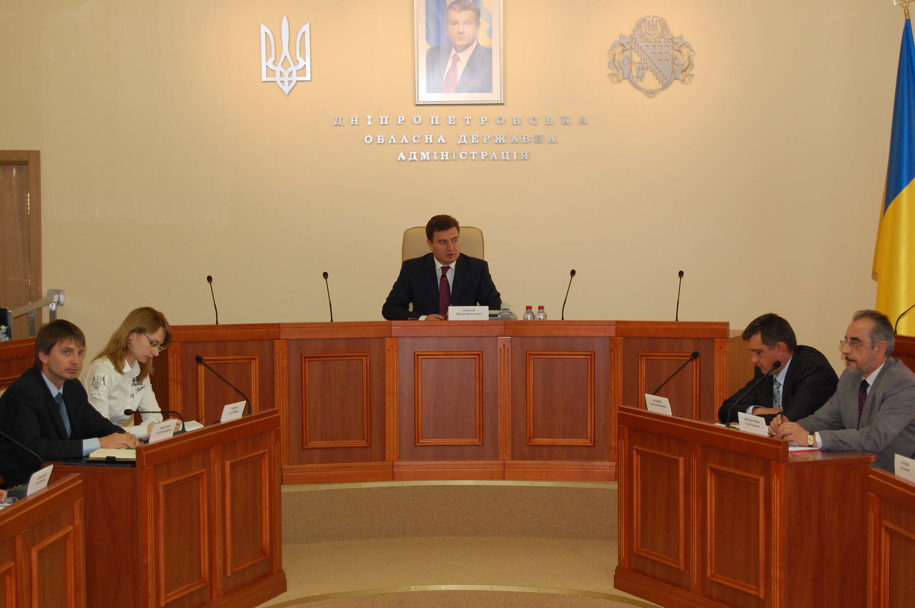 Viktor Bondar as a Head of Dnipropetrovsk Regional Administration holds a working meeting, 2009